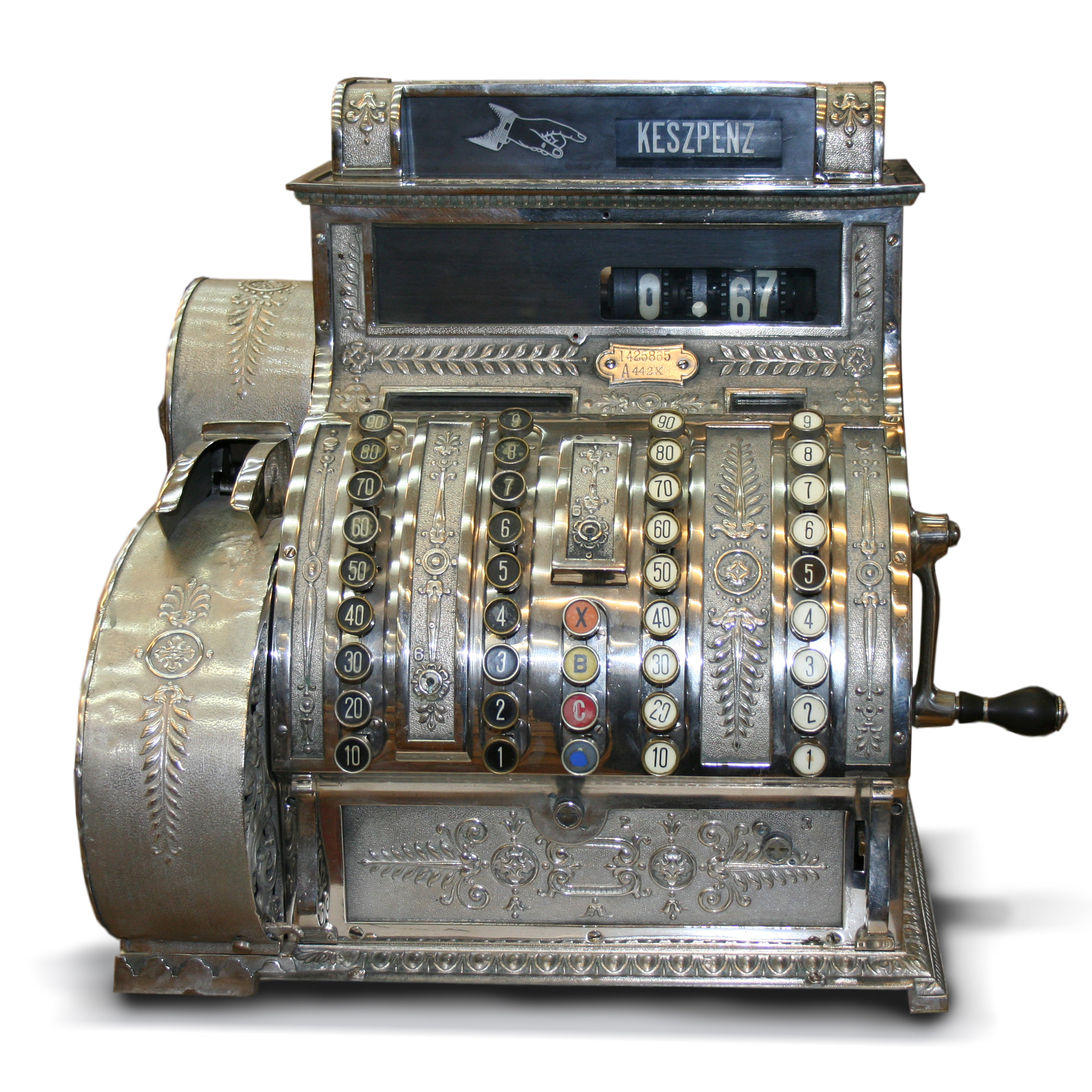 Hungarian Antique three-column full-keyboard cash register 1902